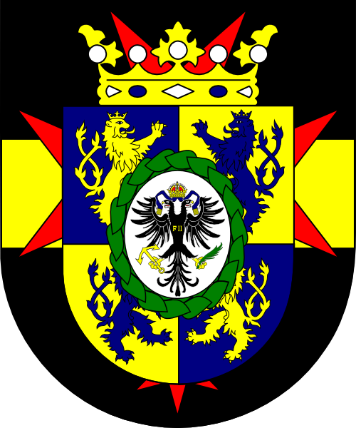 Coat of arms (shield only) of Johannes Friedrich von Waldstein, bishop of Hradec Králové, Czech Republic (1673 - 1675), archbishop of Prague (1675 - 1694).